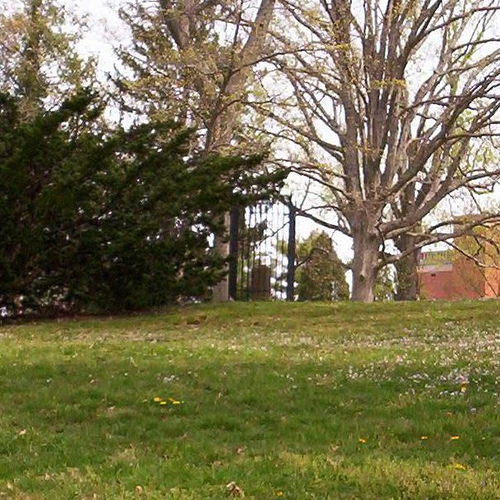 DC Boundary Stone Northwest Mile 4, that is the stone 4 miles northwest of the westernmost point of the original District of Columbia. The stone was placed in 1791-1792 by Andrew Ellicott and Benjamin Banneker. for a map of these stones.